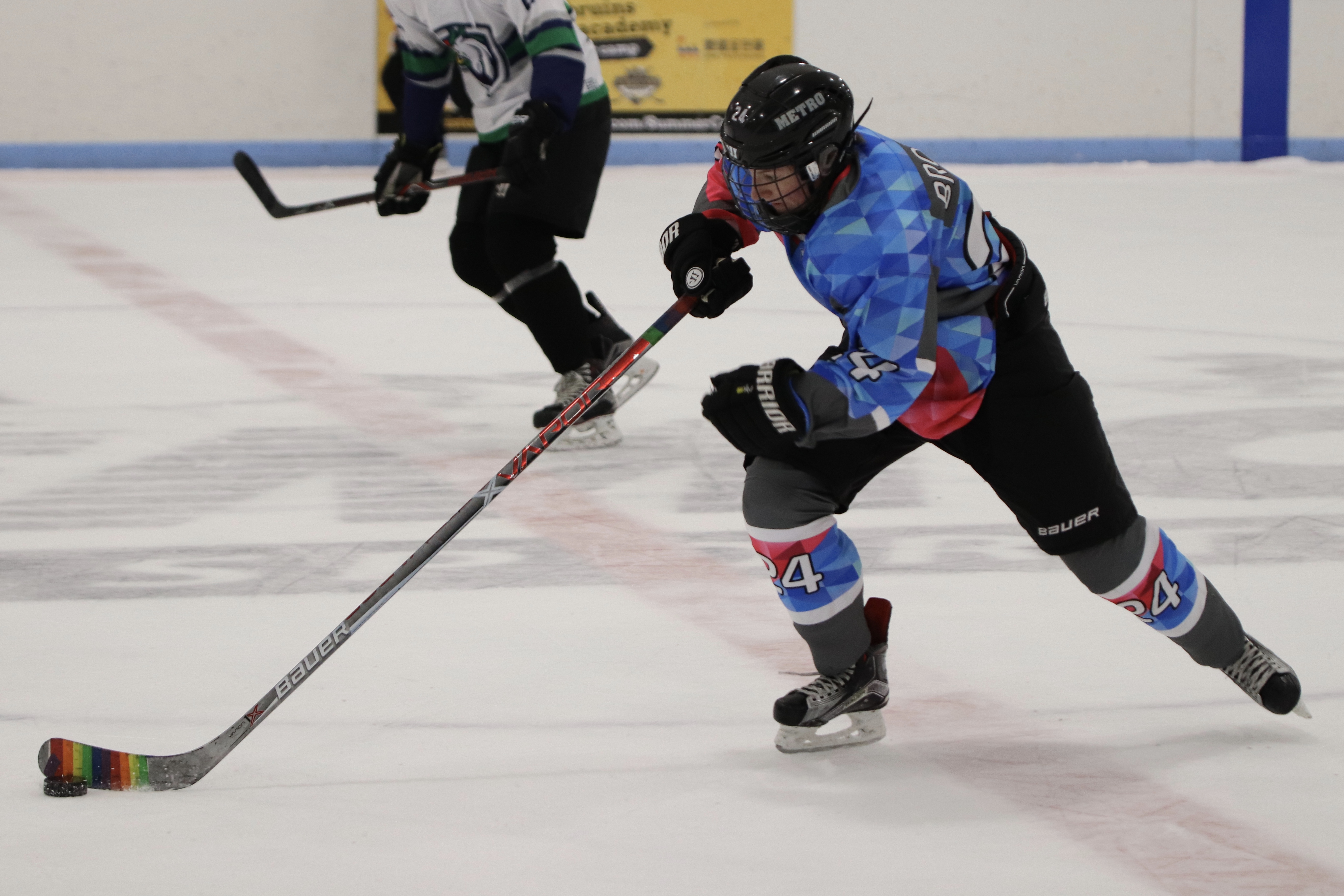 Browne plays in the inaugural Team Trans games